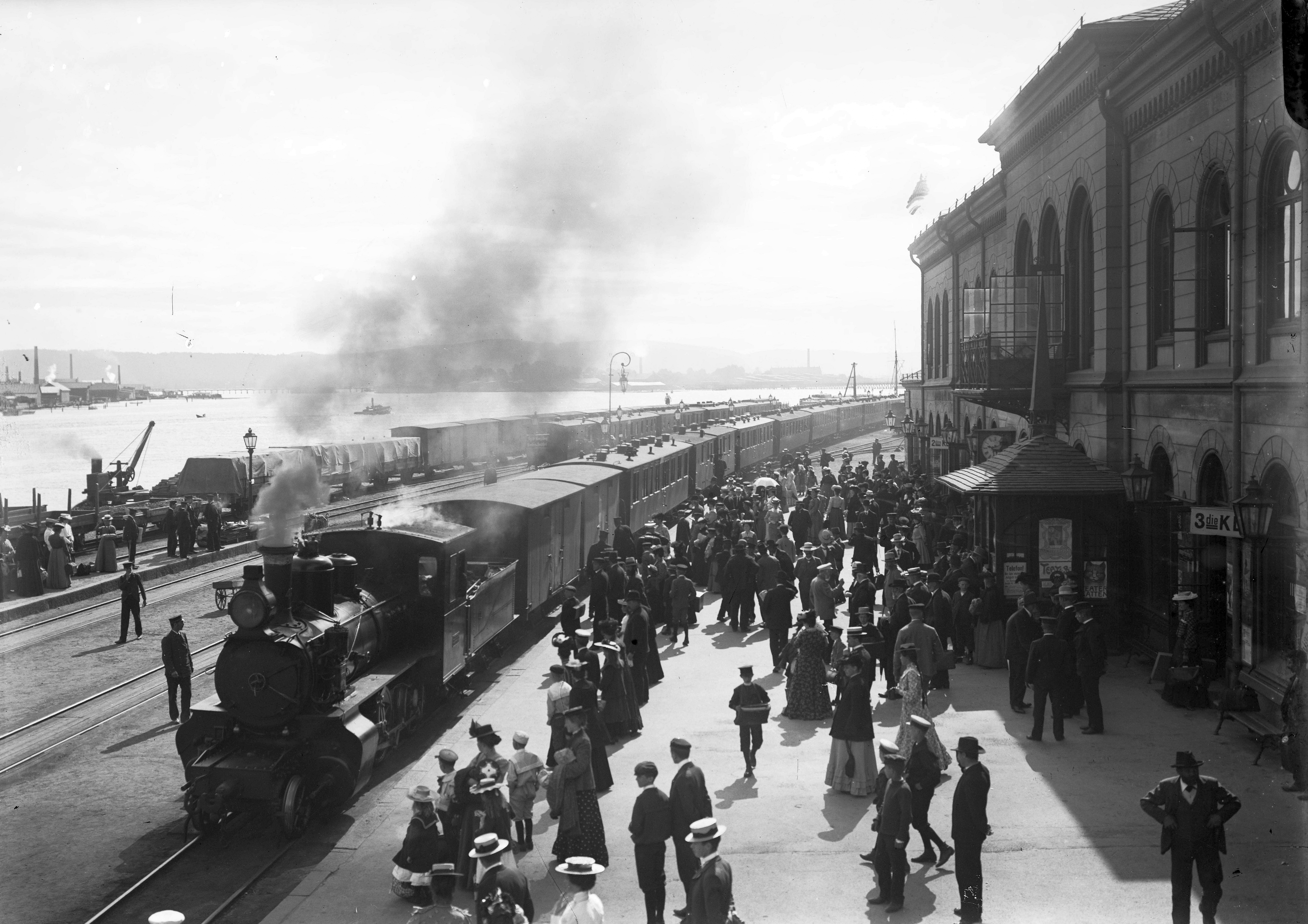 Drammen station, Drammen, Norway. Unknown date, 1916. No-nb digifoto 20160408 00036 NB NS NM 09009 cropped, rotated